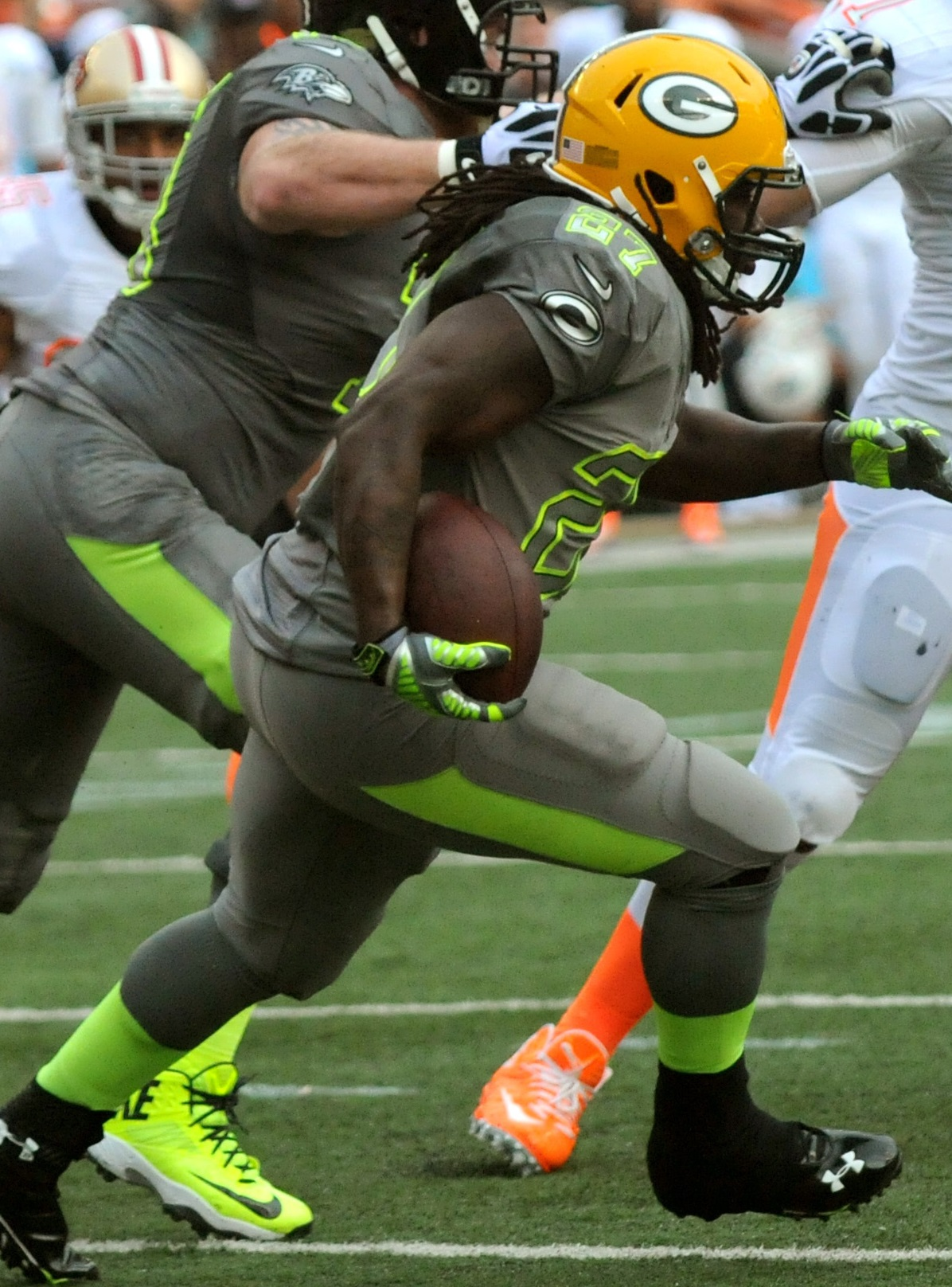 Eddie Lacy in the 2014 Pro Bowl.